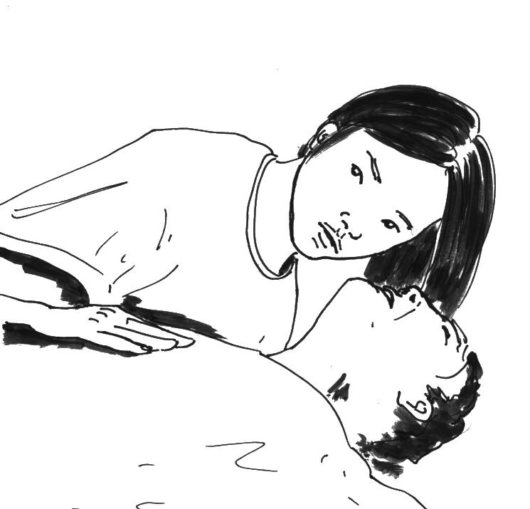 Checking respiration